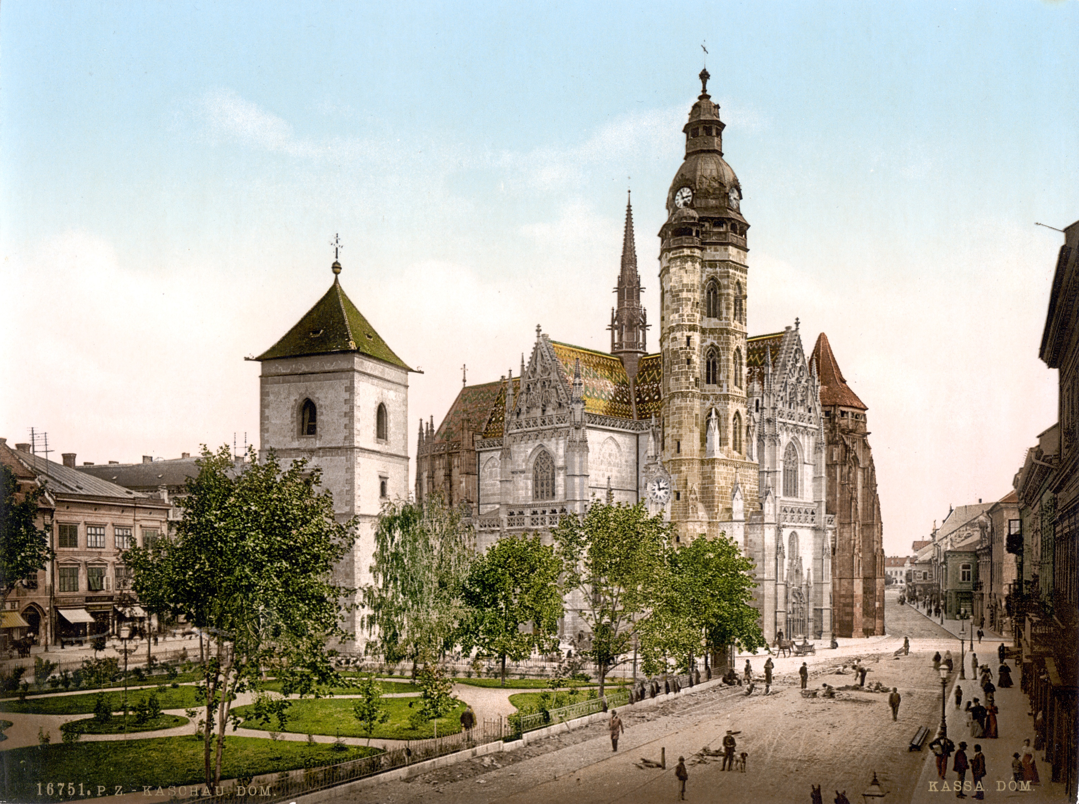 Hungarian Saint Elisabeth Cathedral in Košice (presently Slovakia) around 1900, Hungary